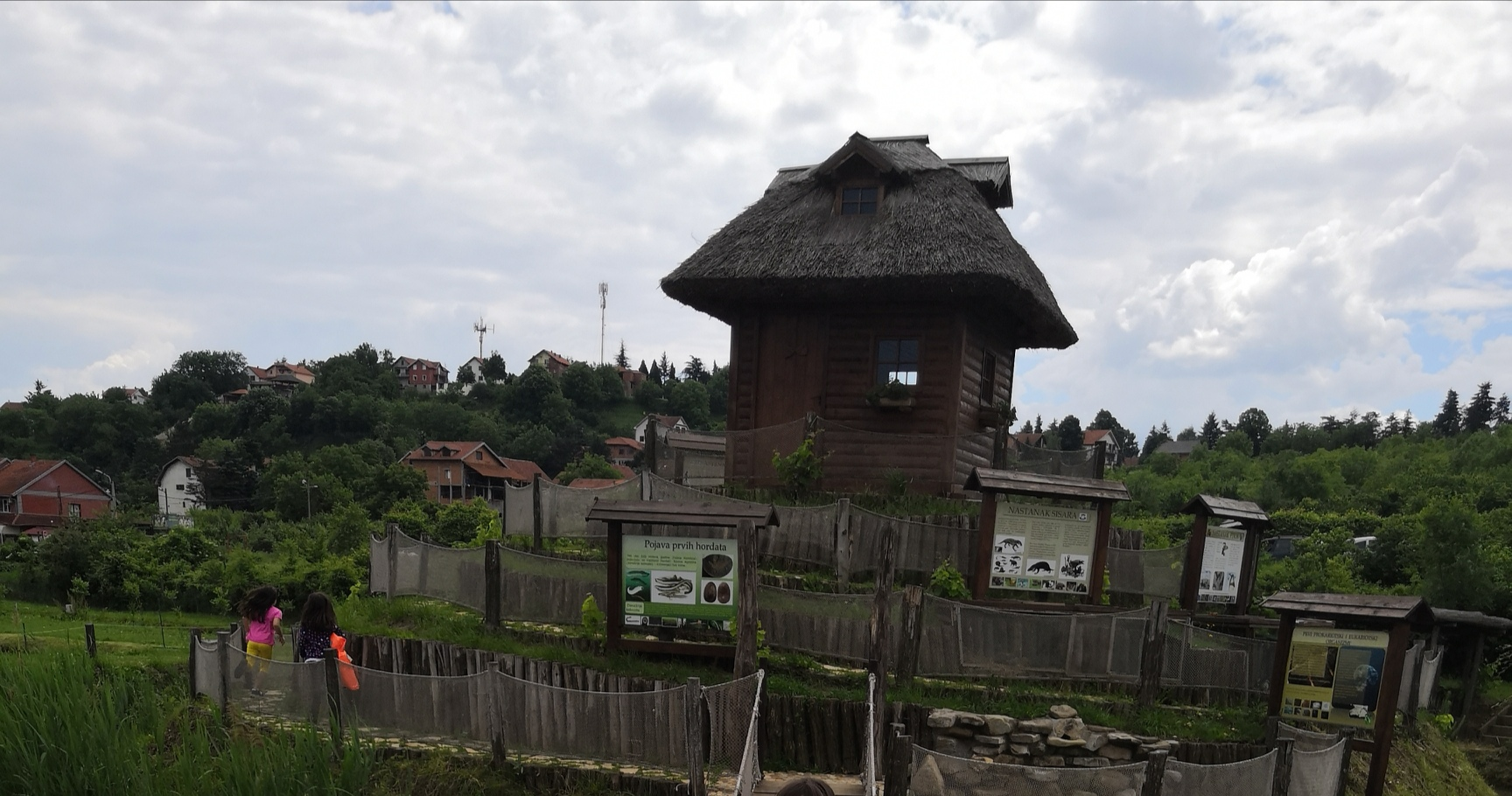 Radmilovac